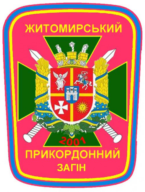 State Border Guard Service Patches of Ukraine